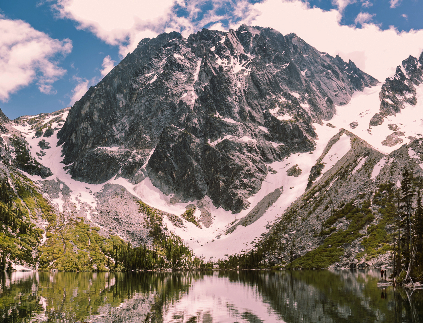 Dragontail Peak seen from Colchuck Lake